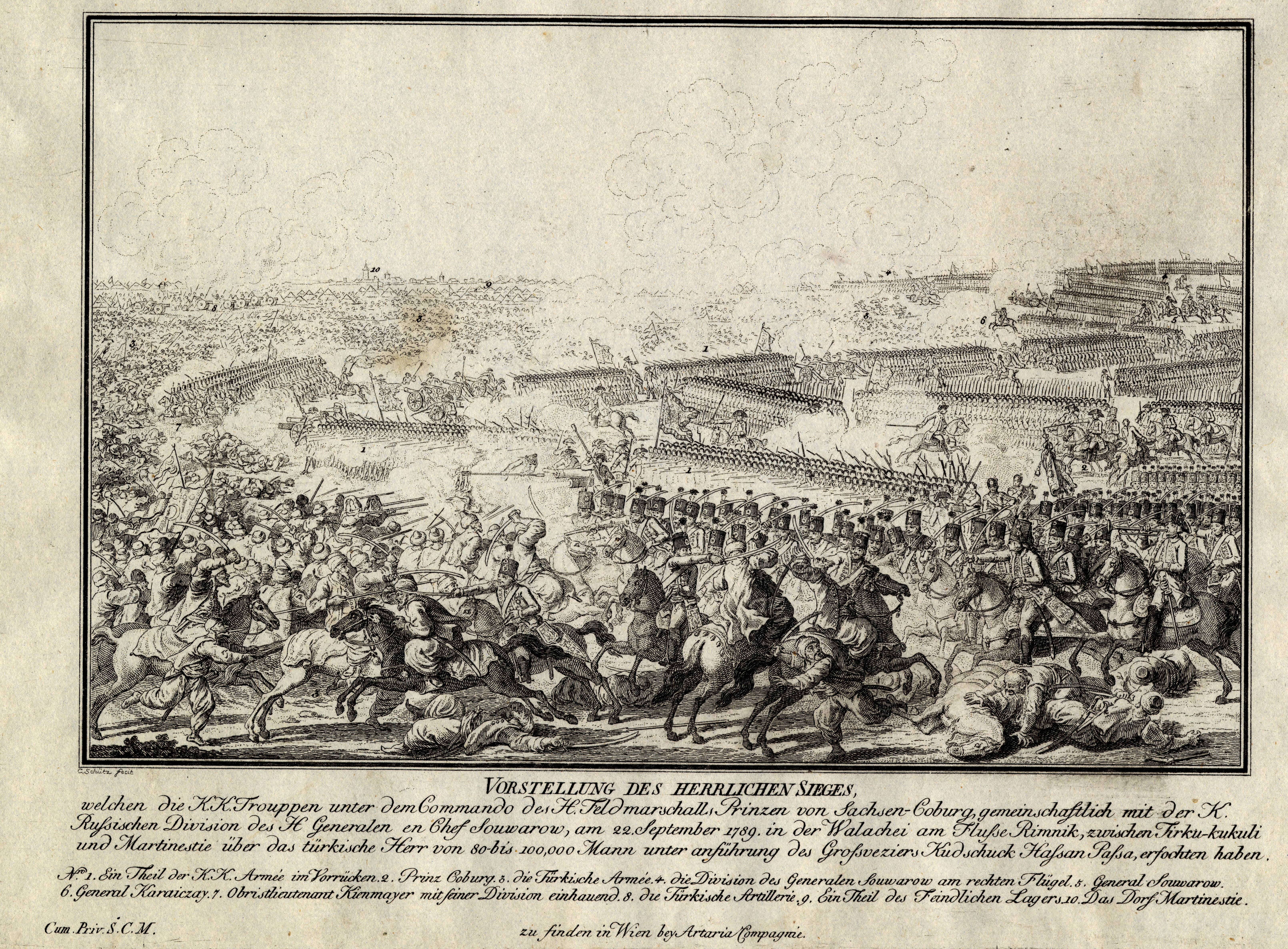 Schütz, Carl, "Vorstellung des Herrlichen Sieges ... am 22. September 1789. in der Walachei am Flusse Rimnik, zwischen Turkukuli und Martinestie" (1789). Prints, Drawings and Watercolors from the Anne S.K. Brown Military Collection. Brown Digital Repository. Brown University Library.